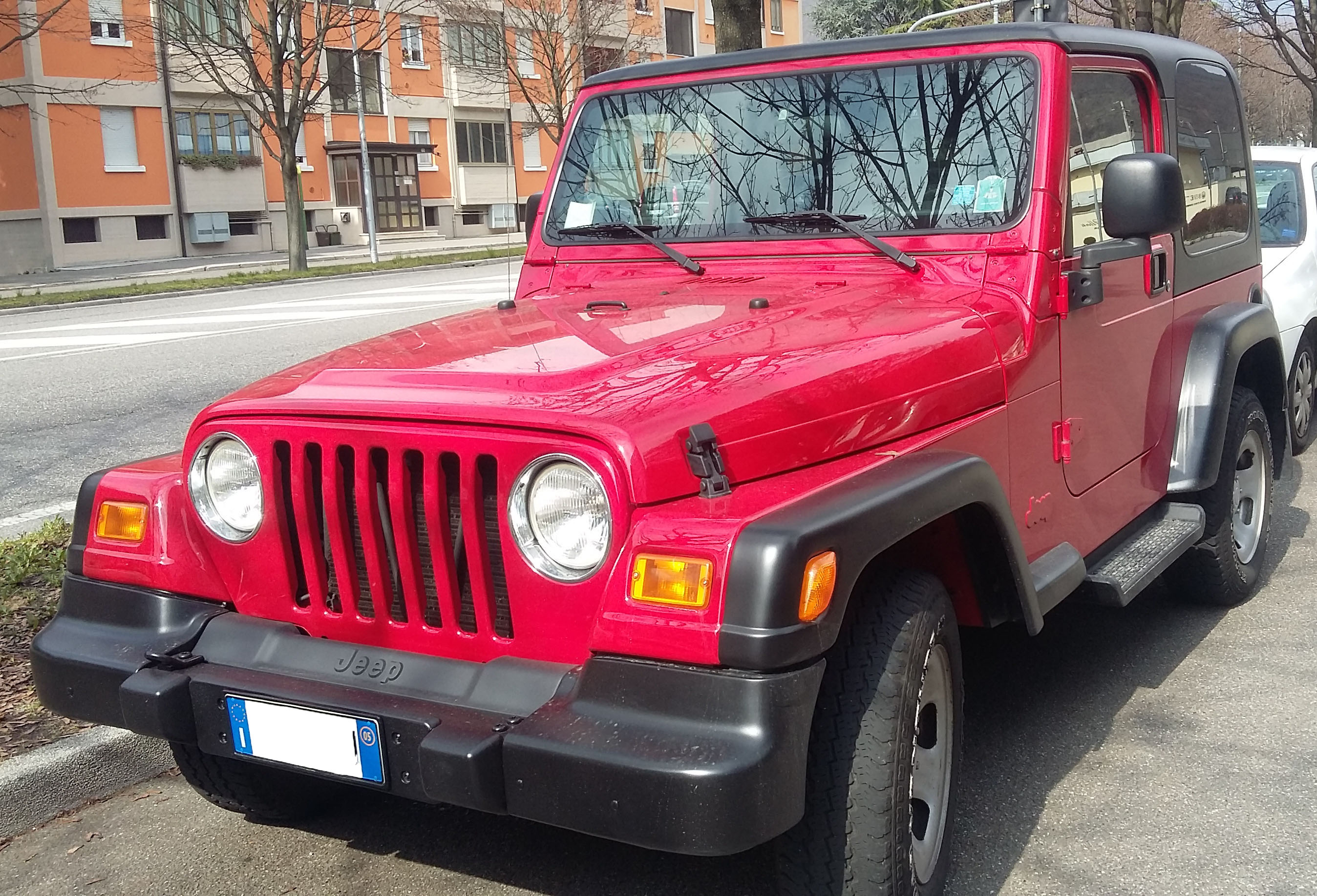 1996-2006 Jeep Wrangler TJ, front